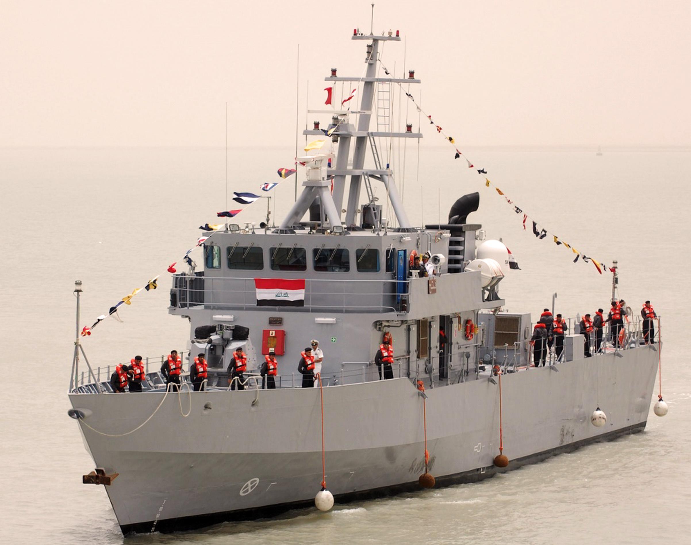 The Fatah arrives at the Port of Umm Qasr.